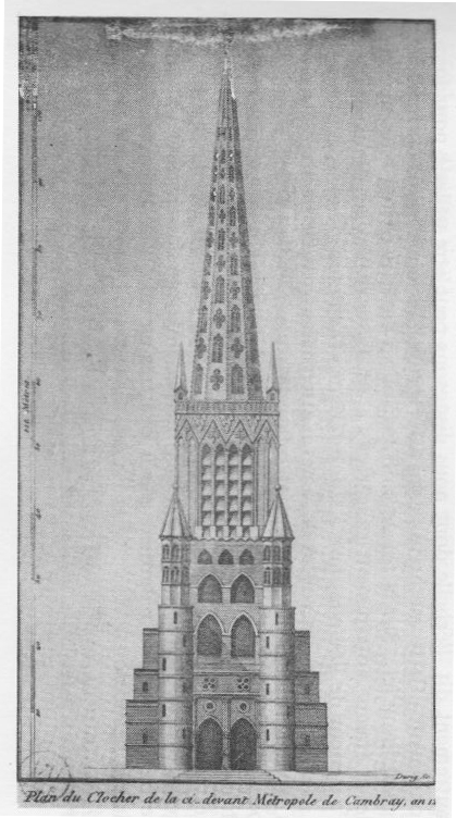 Front of former cathedral of Notre Dame (or Sainte Marie) in Cambrai, drawn by Amédée Boileux , early 19th C.